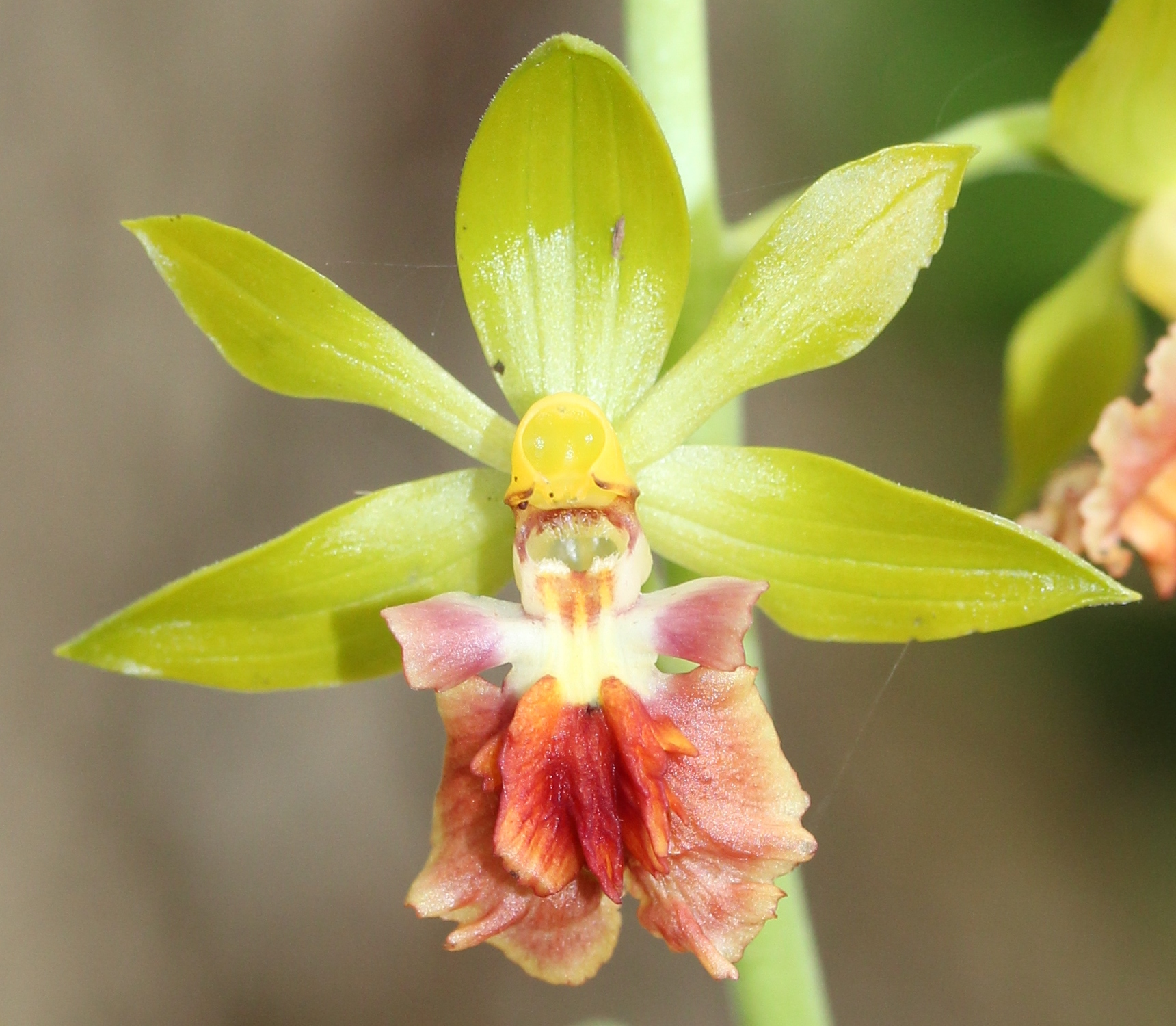 Calanthe tricarinata, in Gifu pref., Japan.